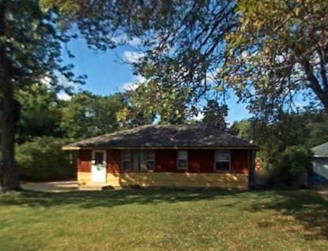 Rambler or Ranch style house